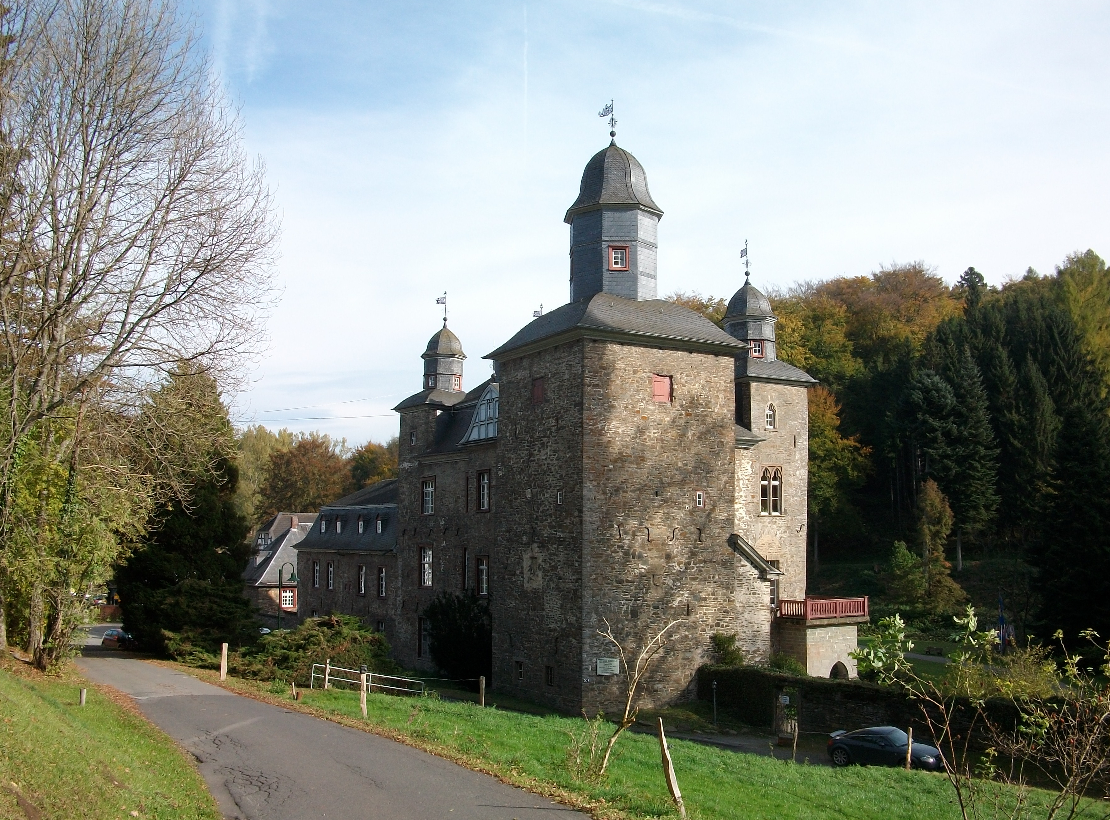 Marienheide, Schloss Gimborn (Germany) - Schloss Gimborn + Tagungsstätte der International Police Association (IPA) - Château Gimborn + Centre d'information et d’études de l’ International Police Association (IPA) - Castello di Gimborn + Centro di Studi e di Formazione dell’ International Police Association (IPA) - Castle Gimborn + Conference Centre of the International Police Association (IPA) - Castillo Gimborn + Centro de Estudios y de Conferencias de la International Police Association (IPA)